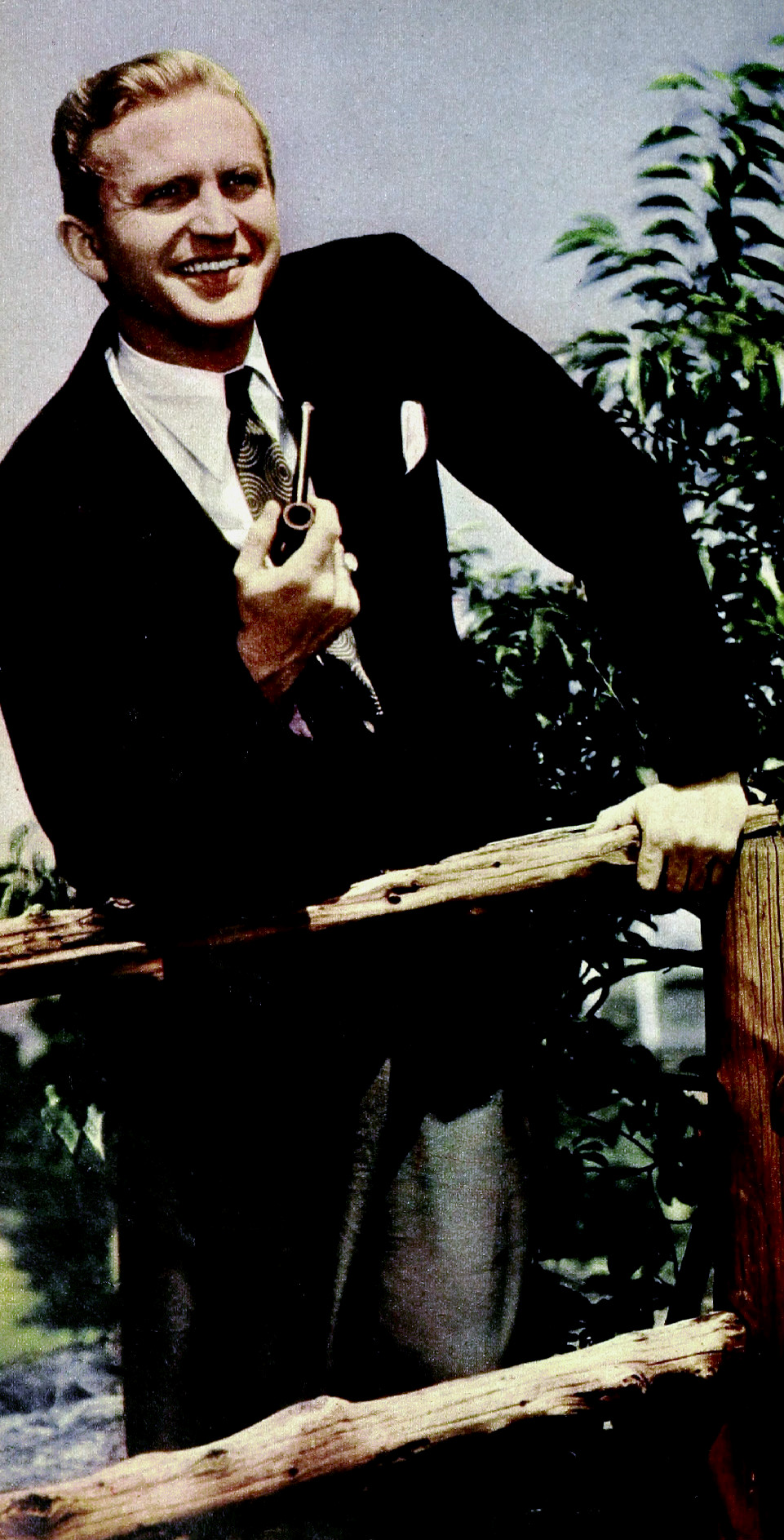 Photo of Karl Swenson from the radio program Our Gal Sunday.